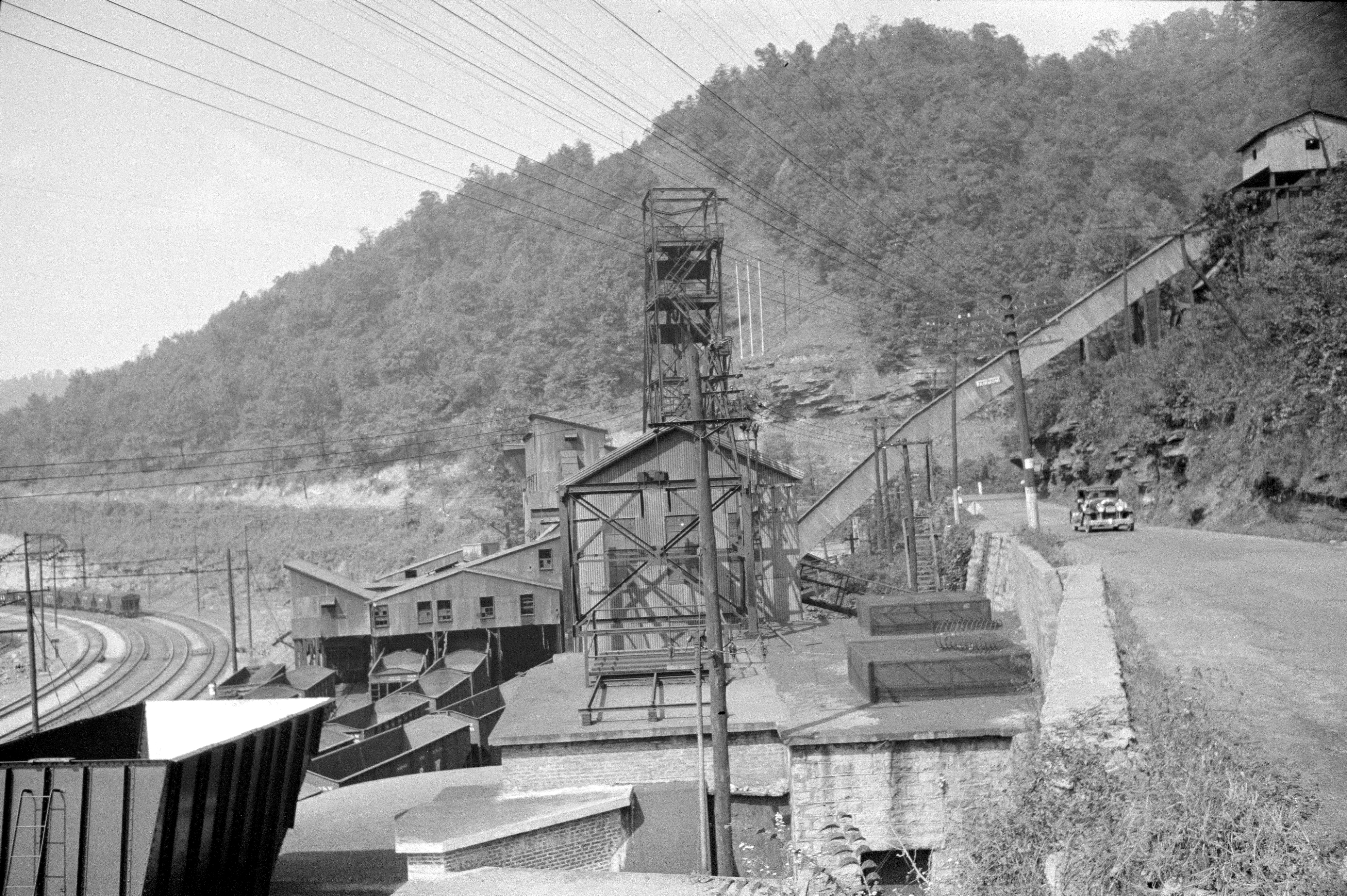 Coal mine tipple in Capels, West Virginia, USA (spelled "Caples" in the photograph's LOC title). Located in McDowell County, Appalachia, West Virginia.